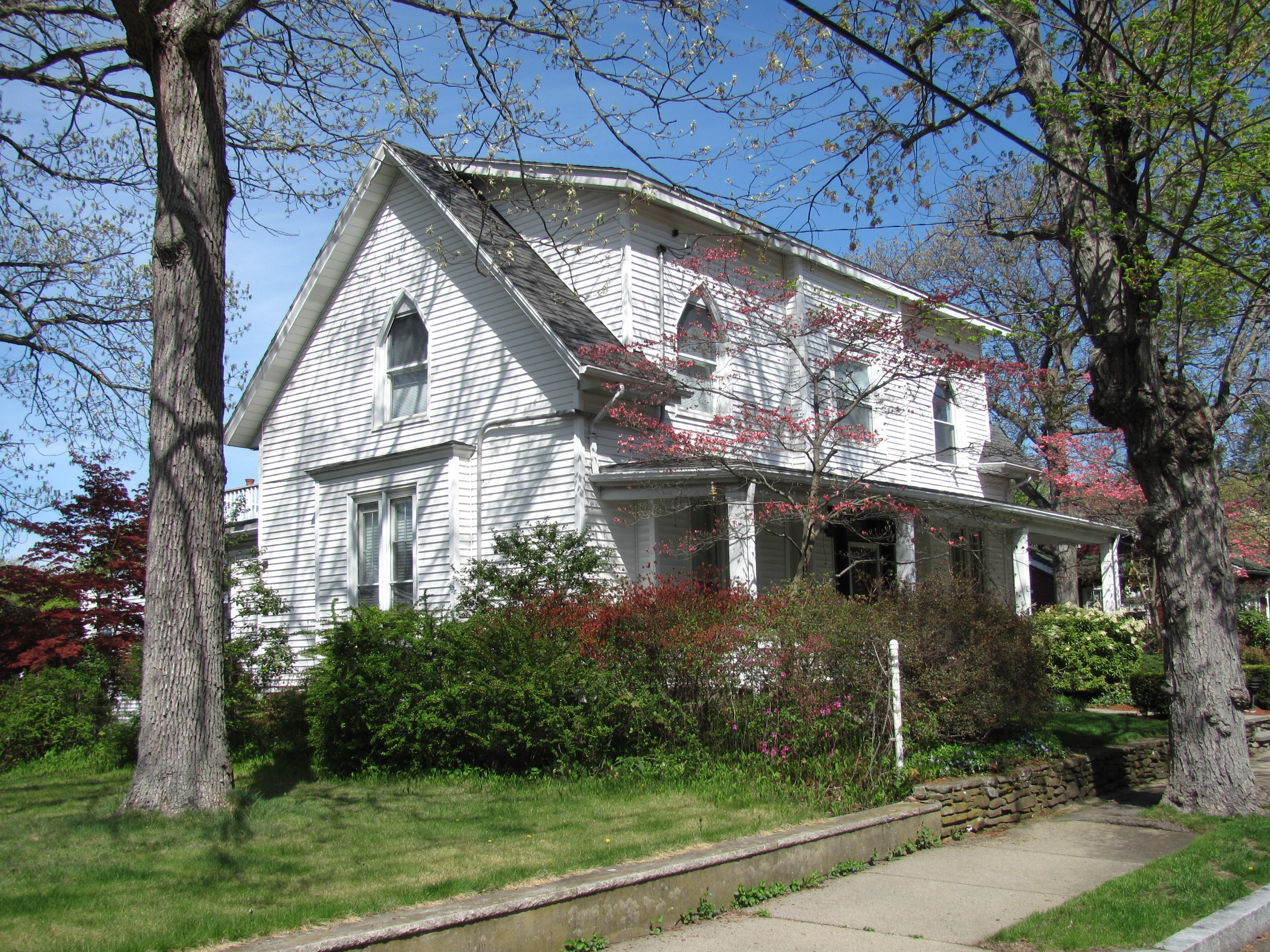 House on Webster Park, West Newton Massachusetts